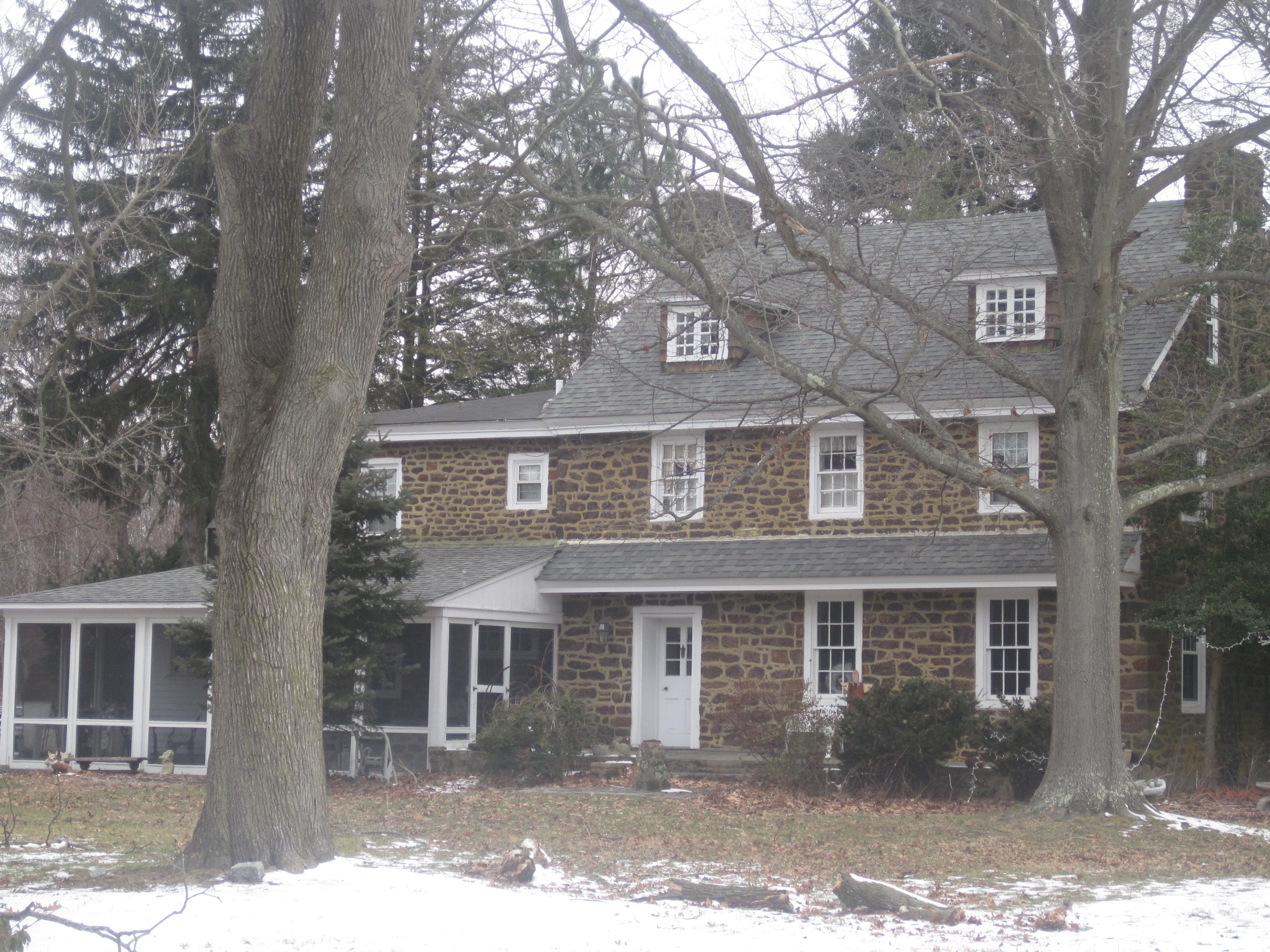 The Jesse Chew House Mantua-Sewell Road, near the railroad bridge The house, built of Jersey sandstone in 1772, is still in remarkable condition. Hand-hewn rafters, the corner fireplace, iron door hinges and the finger latches are original. Jesse Chew was a Methodist preacher and his home was spared from the raids of the British. (Private)